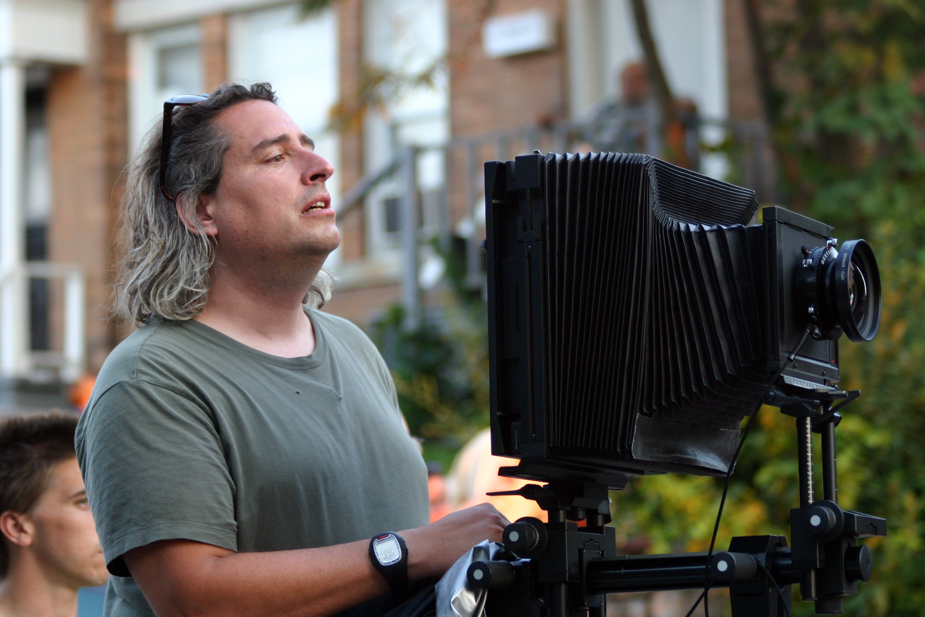 Photographer Gregory Crewdson setting up a shot with his 8x10 camera on location in Pittsfield, Massachusetts at the corner of Seymour Street and Madison Avenue. July 25, 2007. Location of shoot